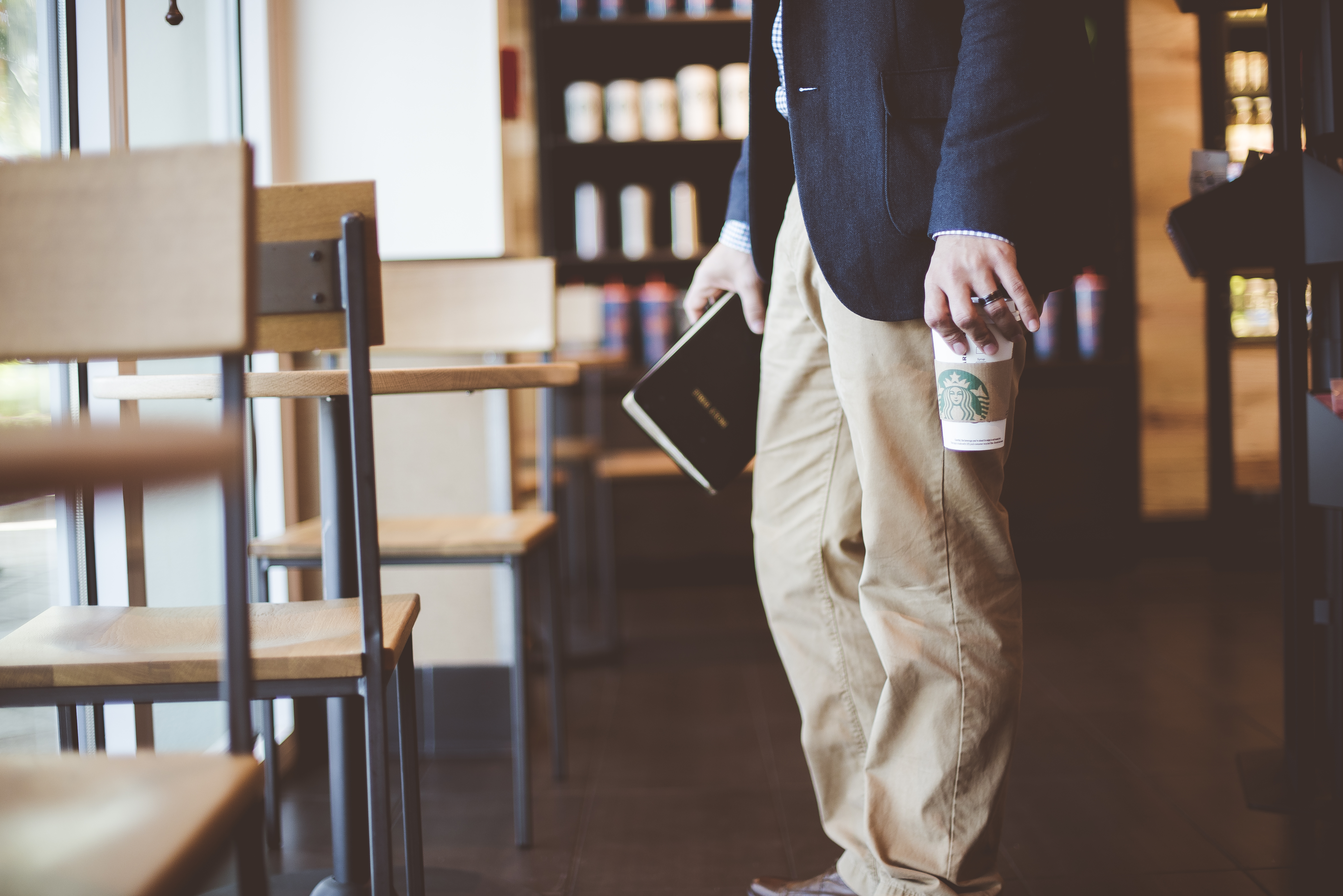 Ben White 2016-11-21